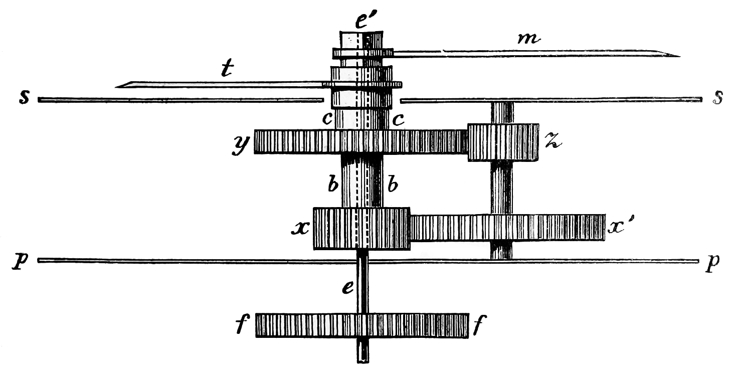 Drawing of the 'motion work' of a clock, the gears that turn the hour and minute hands. From "Tidens naturlære" (Nature of time) 1903 by Poul la Cour, Fig. 23. The book is digitized at Tidens Naturlære